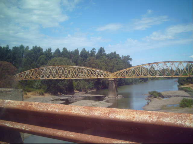 Bridge over Perquilauquen river, in abandoned railway Parral-Cauquenes (Chile)